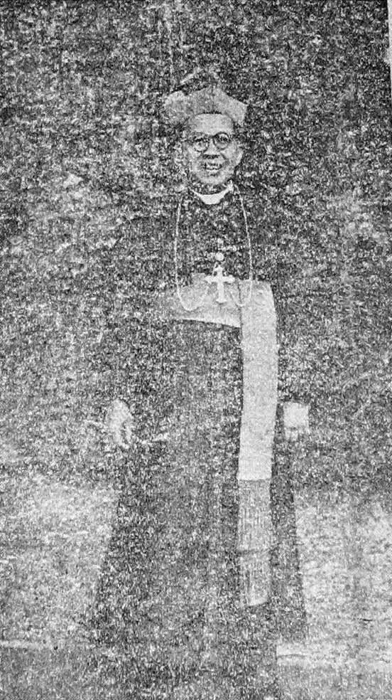 Picture of Albertus Soegijapranata